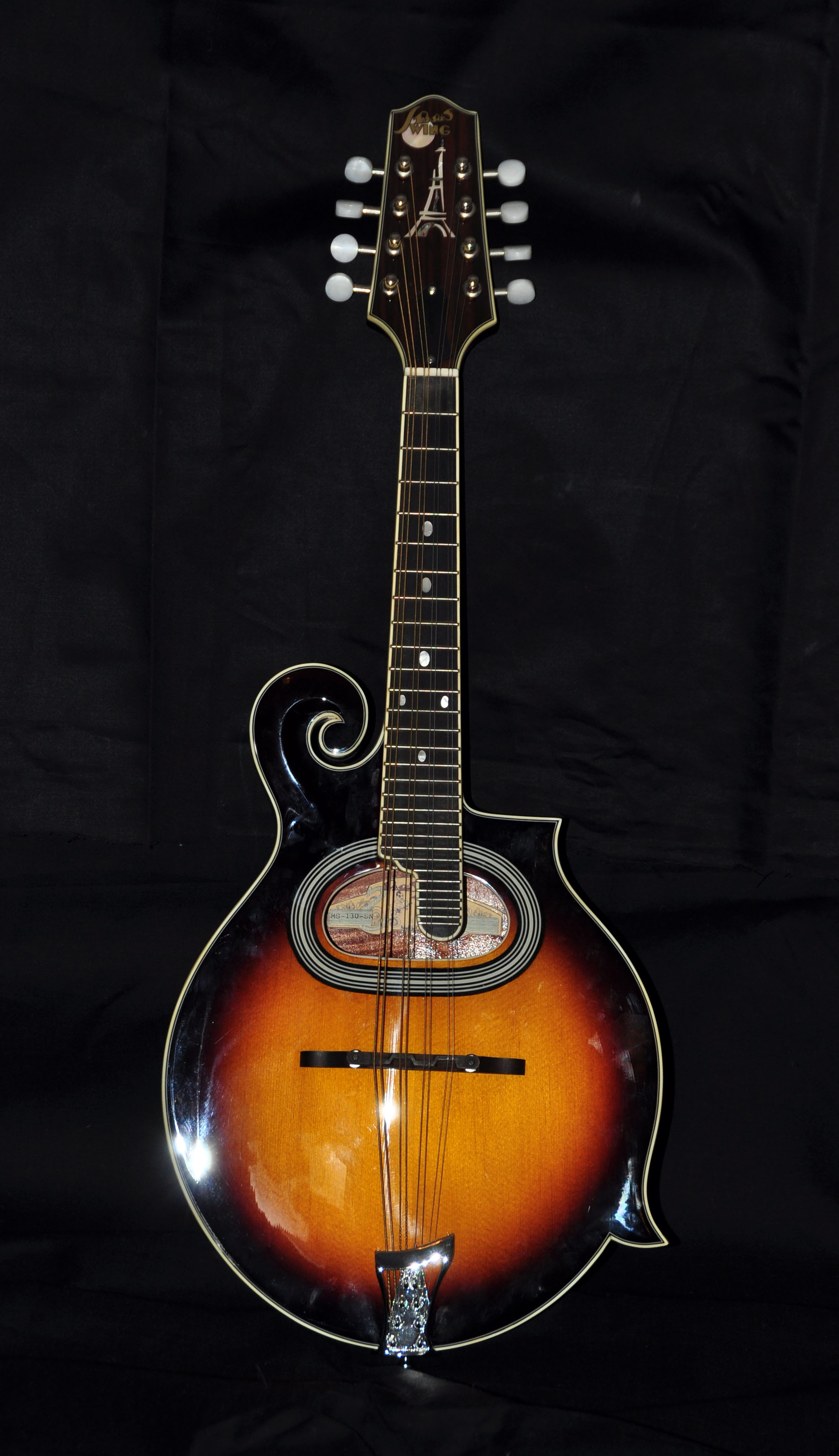 Paris Swing MS-130-SN Samois Mandolin from Flickr album "200907 My Guitars" by John Clift "My current collection of guitars - five of them are self-built"